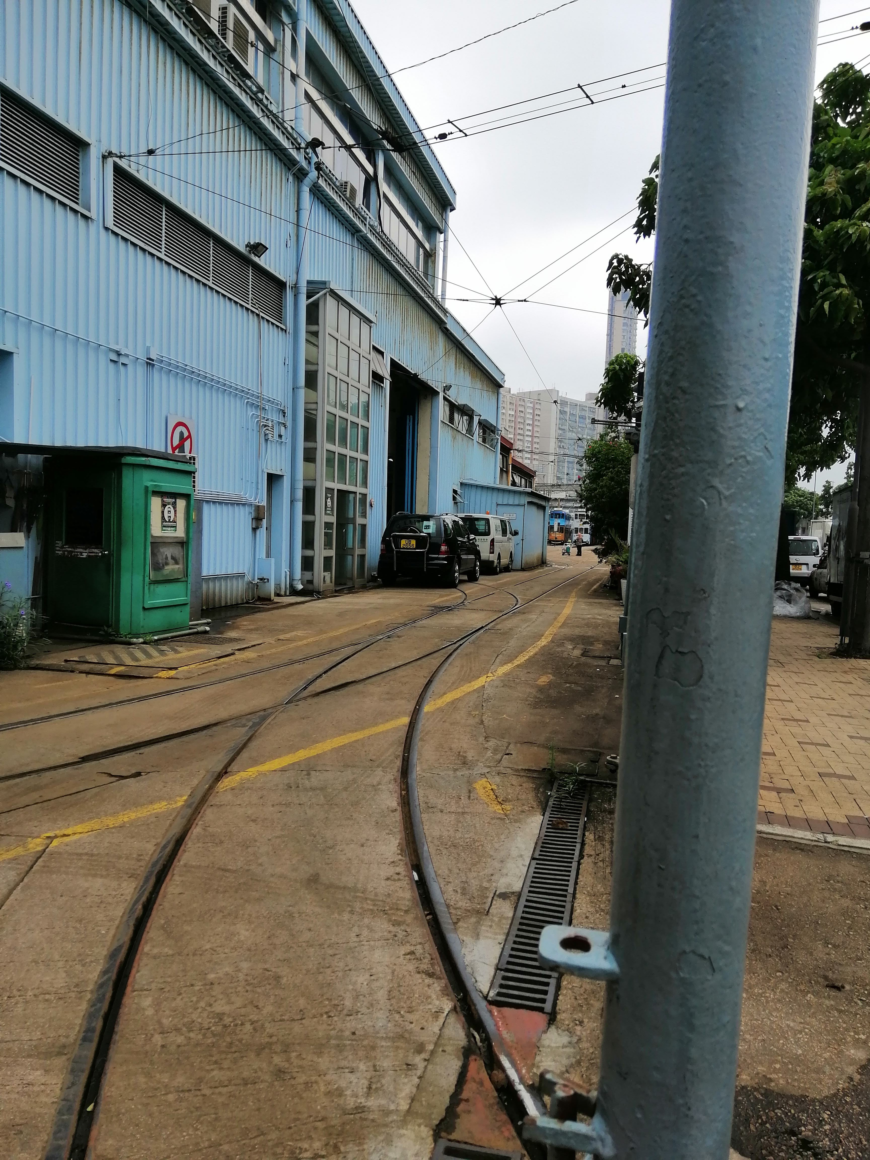 Scenery of Hong Kong Island